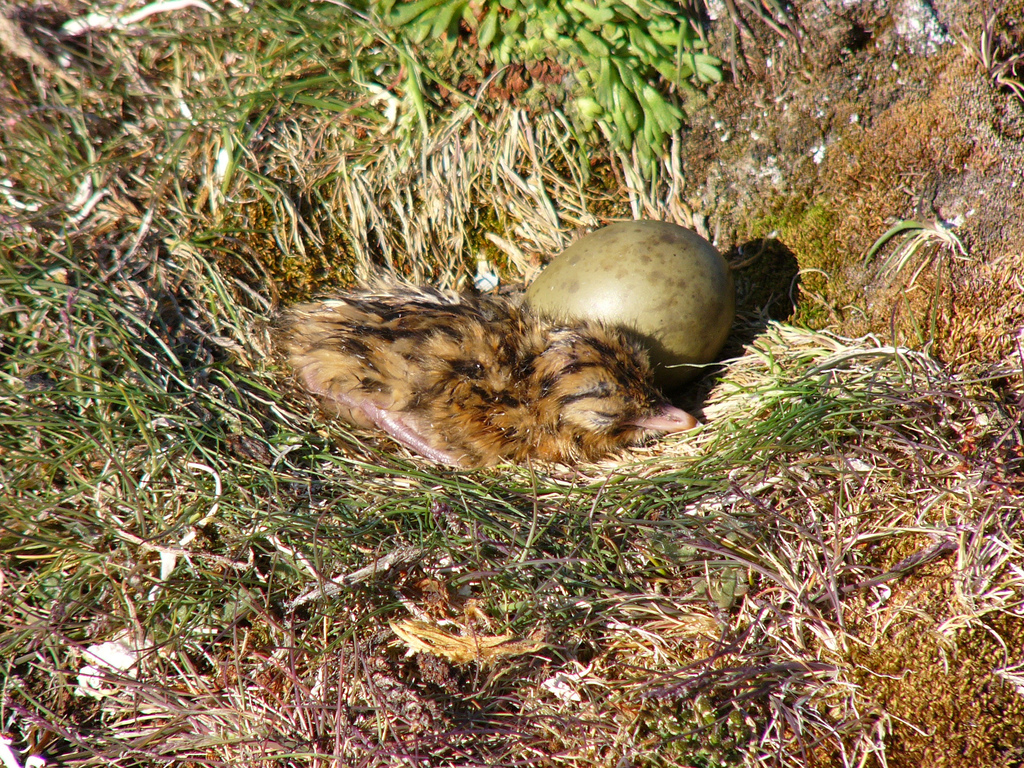 A newly hatched Sabine's gull Xema sabini, and its soon-to-be sibling